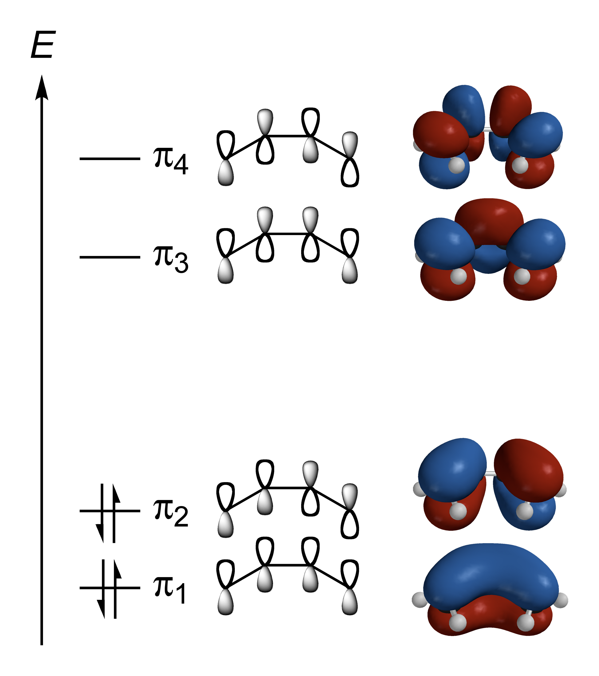 Energy level diagram of the π molecular orbitals of butadiene (forced to adopt a planar cis conformation, for the purposes of discussing cycloadditions). Structures calculated and images produced using HF/6-31G* in Spartan '04 Student Edition and ChemDraw Ultra 11.0. Energy of orbitals: π4: +7.71713 eV π3: +3.16186 eV (LUMO) π2: −8.66624 eV (HOMO) π1: −12.10962 eV